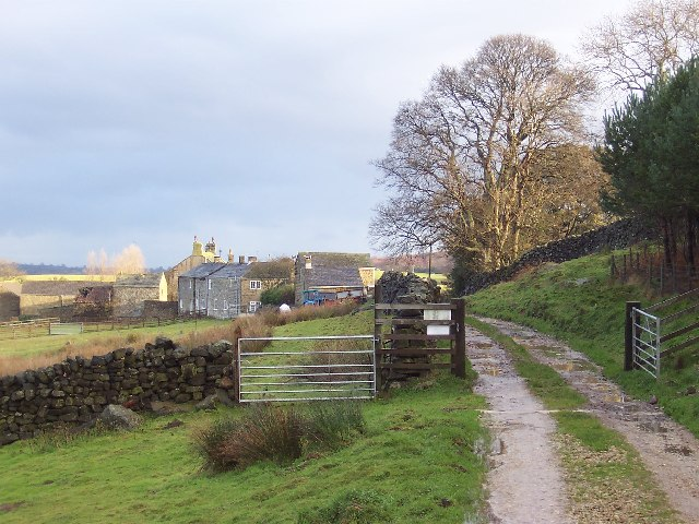 Dallow. Collection of houses that make up the hamlet of Dallow, from the west.